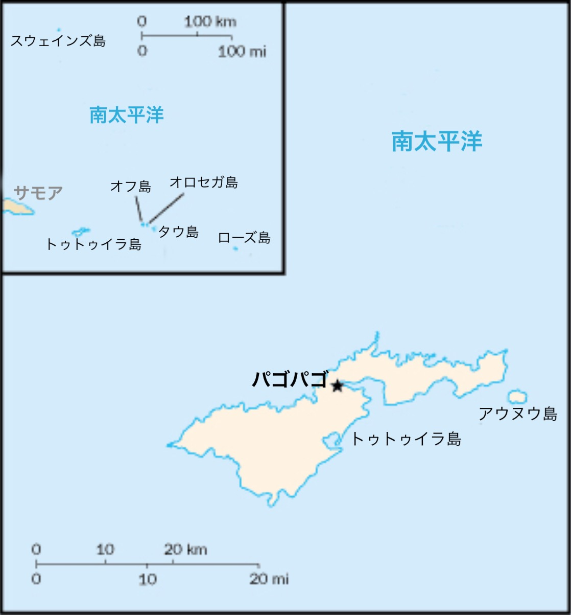 Map of American Samoa in Japanese (from CIA World Factbook)